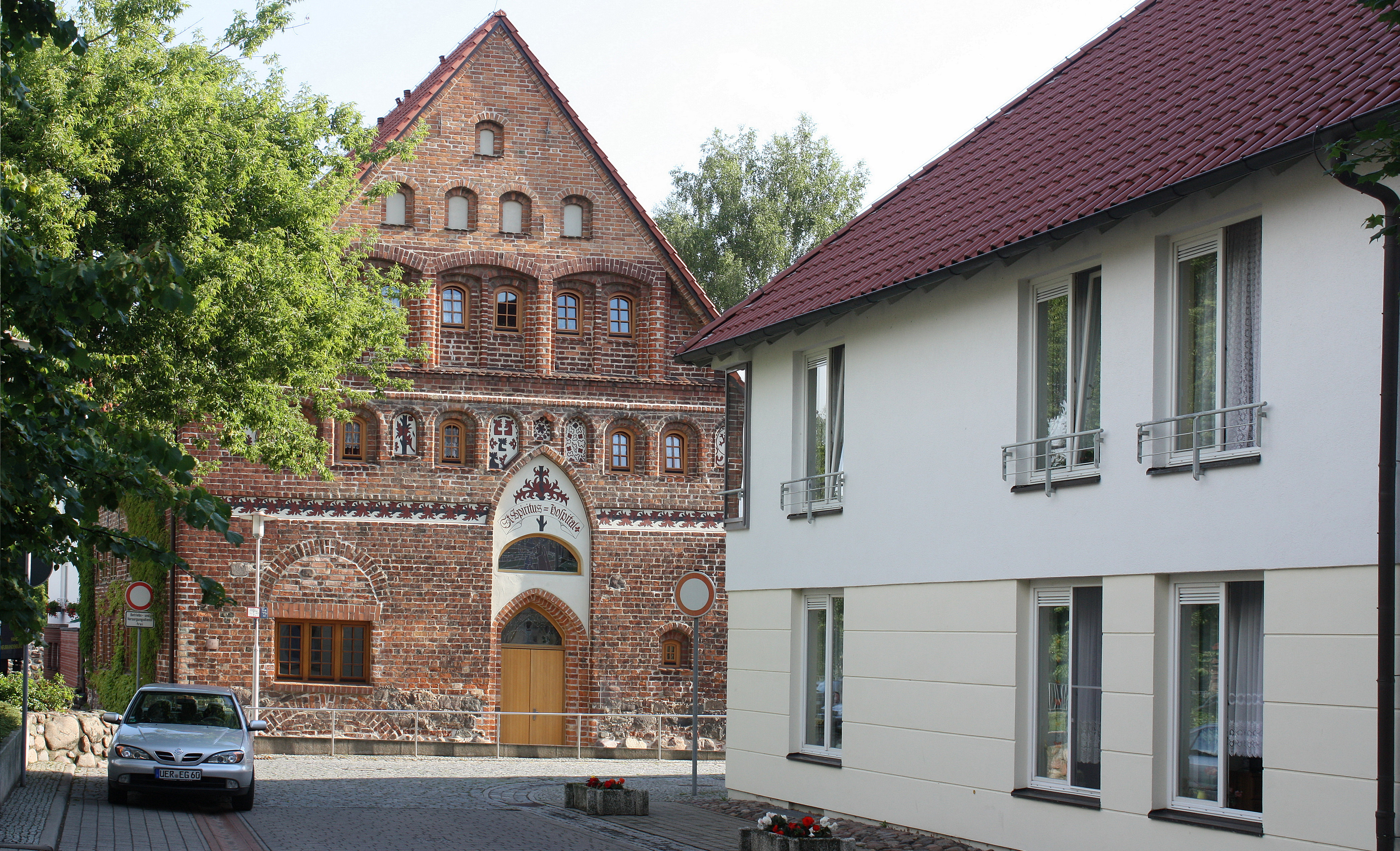 Pasewalk, Hospital St.Spiritus; Ueckerstraße 1 - Denkmalliste Nr. 119 - heute als Pflegeheim genutzt This is a photograph of an architectural monument.